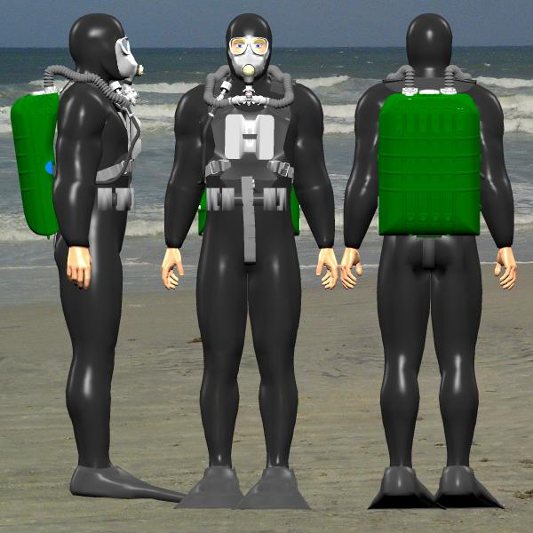 3 frogmen with IDA71 rebreathers. Image made with CGI.